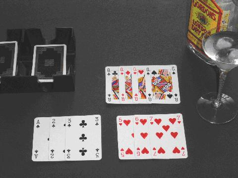 A completed game of Gin Rummy, showing 3 melds with no deadwood, as well as a glass and bottle of Gin to the right.